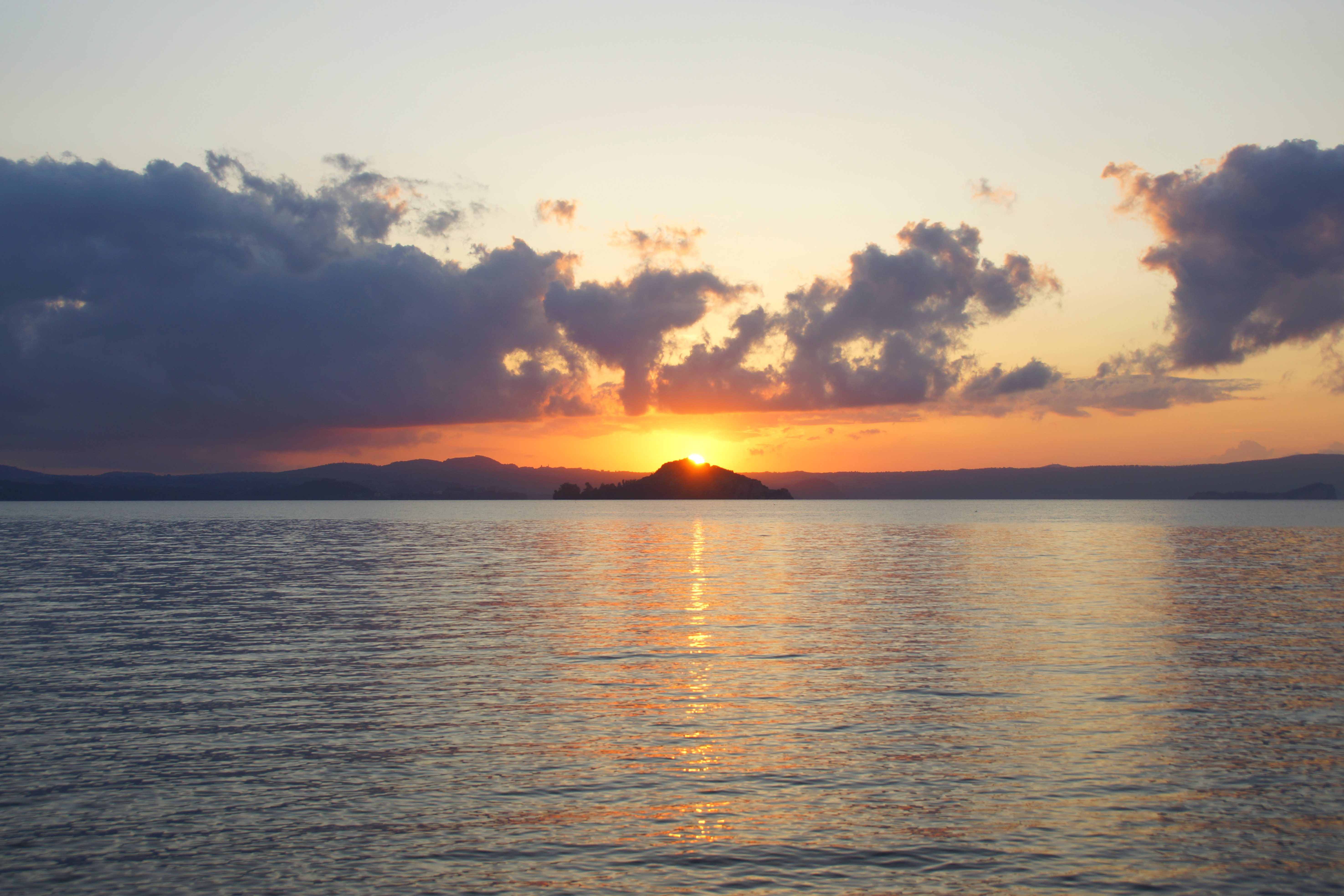 Sunset Lago di Bolsena behind Isle Martana, Lazio, Italien. Foto Wolfgang Pehlemann DSC00121